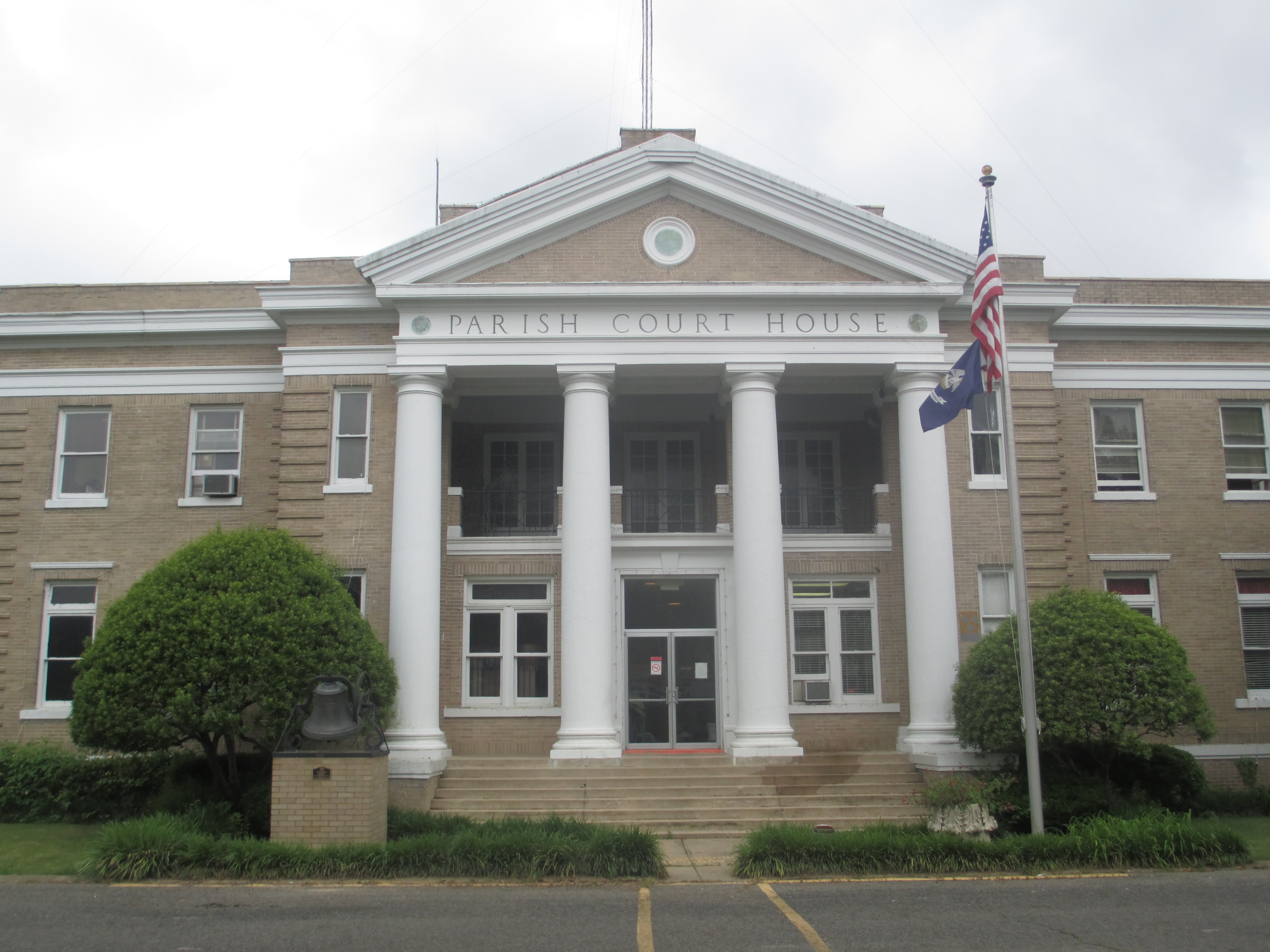 I took photo with Canon camera of West Carroll Parish Courthouse in Oak Grove, LA.